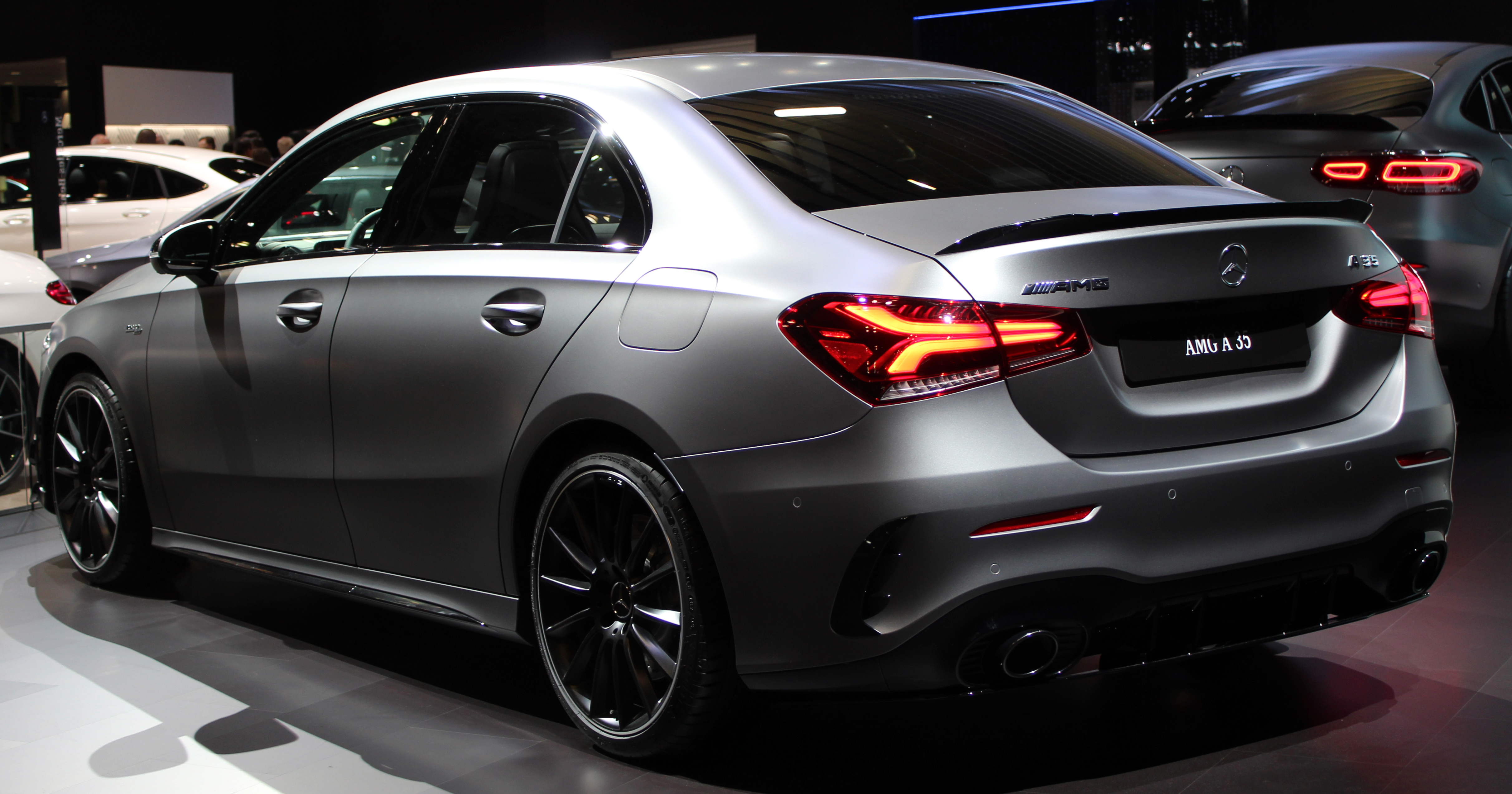 A 2020 Mercedes-AMG A 35 photographed during the 2019 New York International Auto Show, in Hudson Yards, Manhattan, NYC